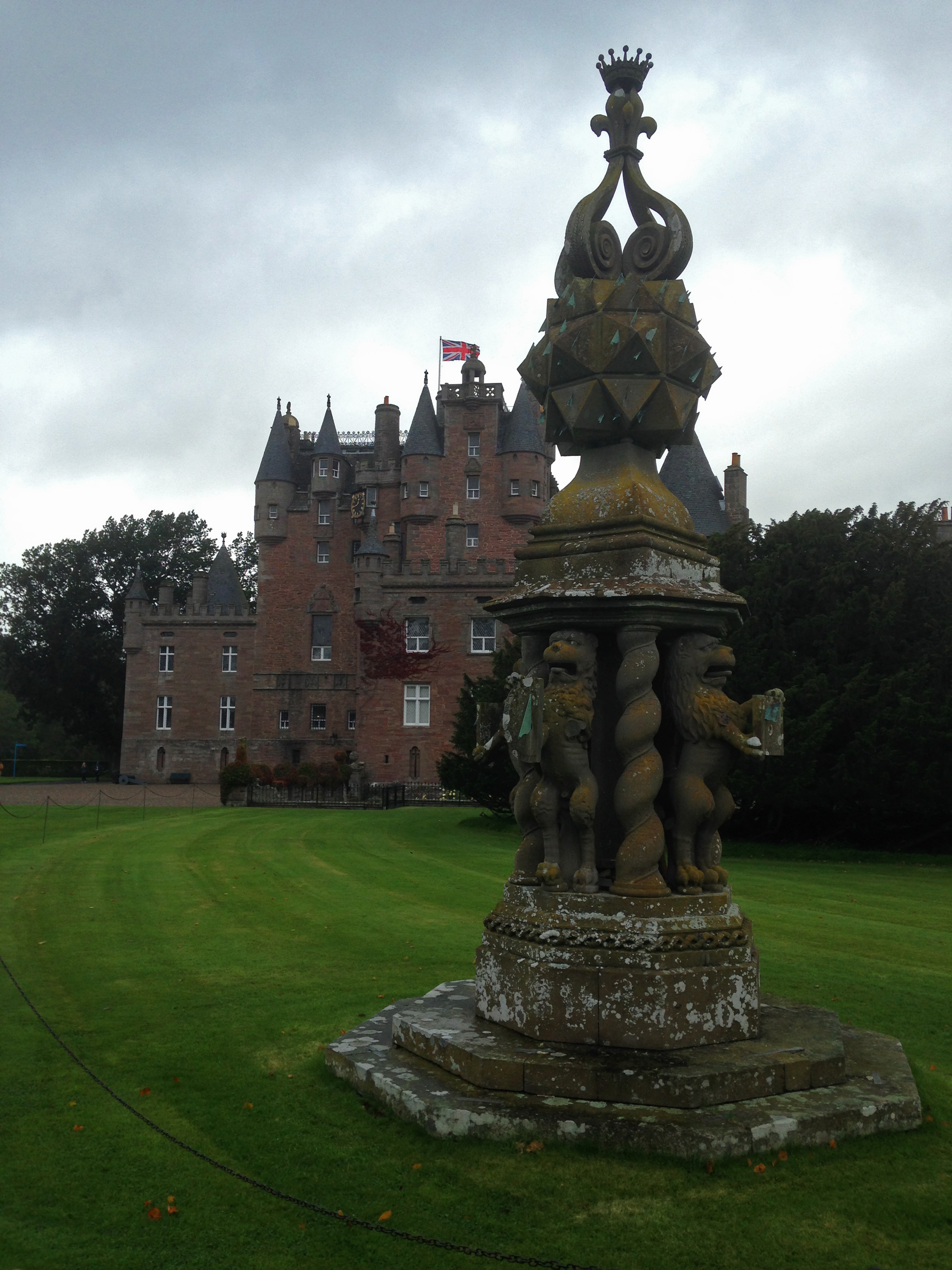 Glamis castle view from the front lawn